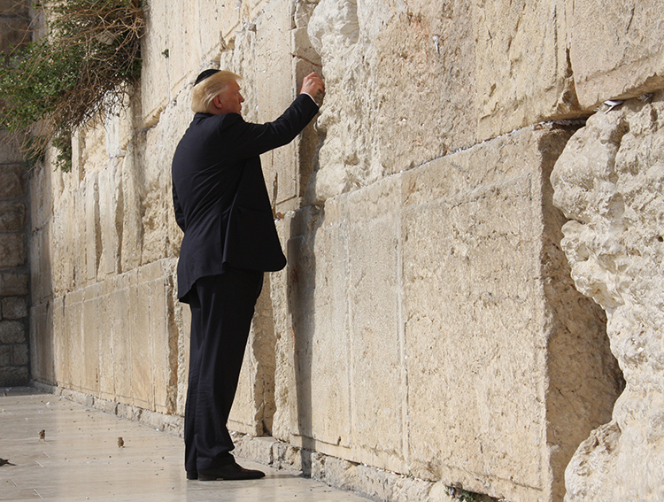 President Donald Trump places a prayer in-between the stone blocks of the Western Wall in Jerusalem, Monday, May 22, 2017. (Official White House Photo by Dan Hansen)